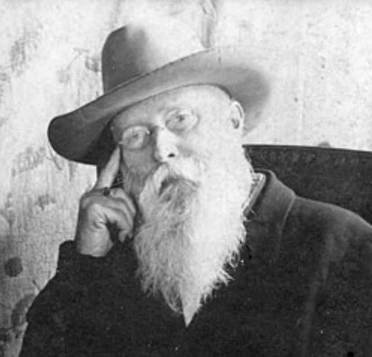 Julius Ludwig George Willrich (*31. Dezember 1841; † 11. Februar 1919 La Grange/Texas), Soldat der Konföderierten, später Lehrer an der Teutonia School, Professor